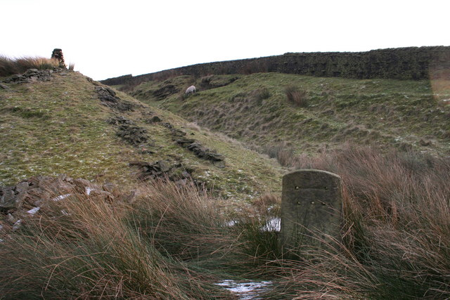 Gambleside Village Part of this route is called the Limersgate,In 1866 Clowbridge reservoir was built and flooded the village cornfield.